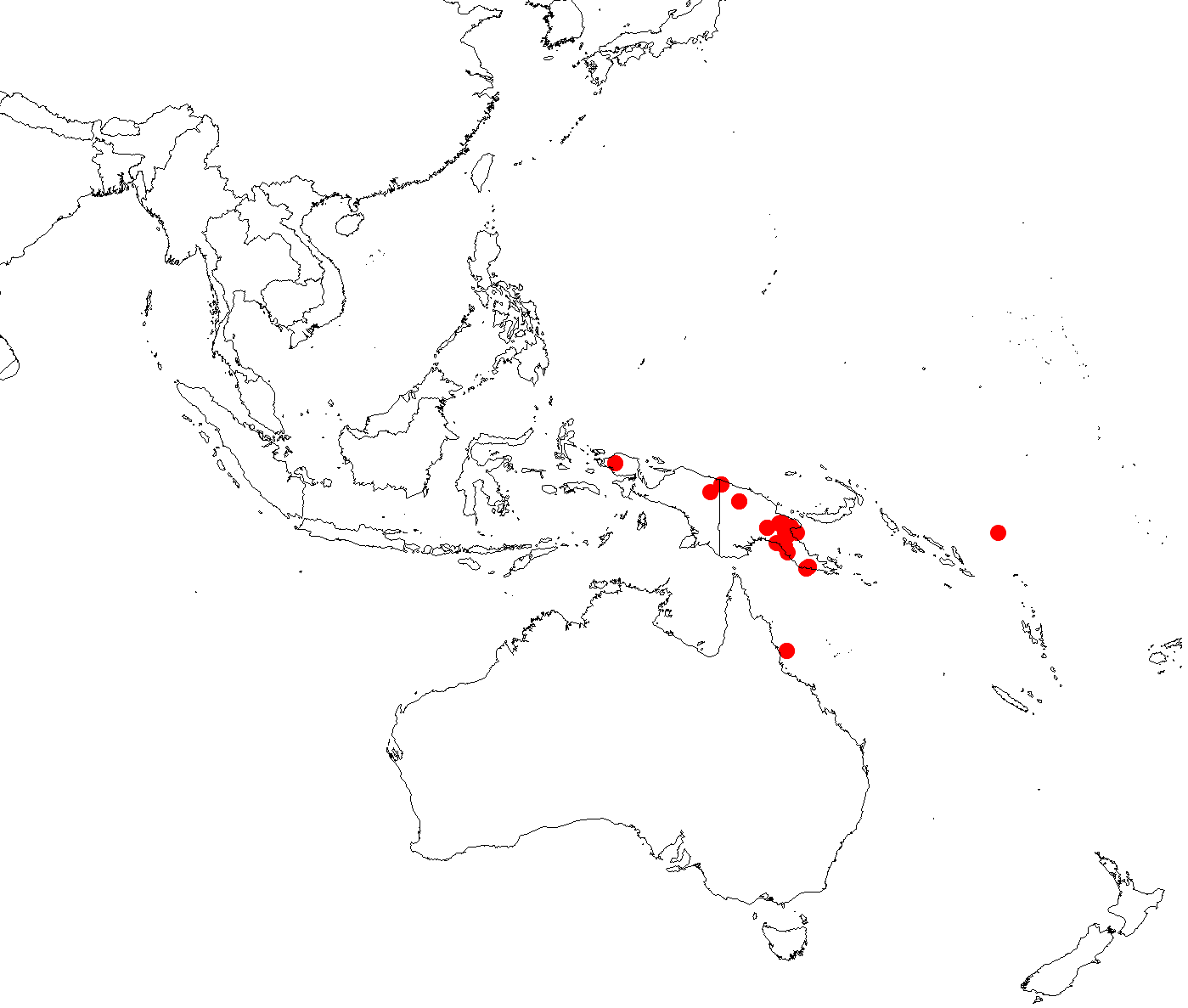 Parsonsia lata Occurrence data downloaded from (21 December 2018) GBIF Occurrence Download